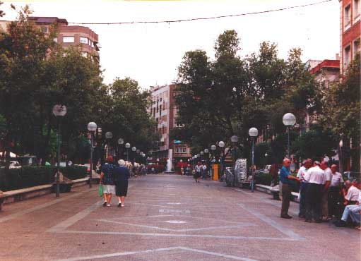 Old Major Avenue of Sabadell